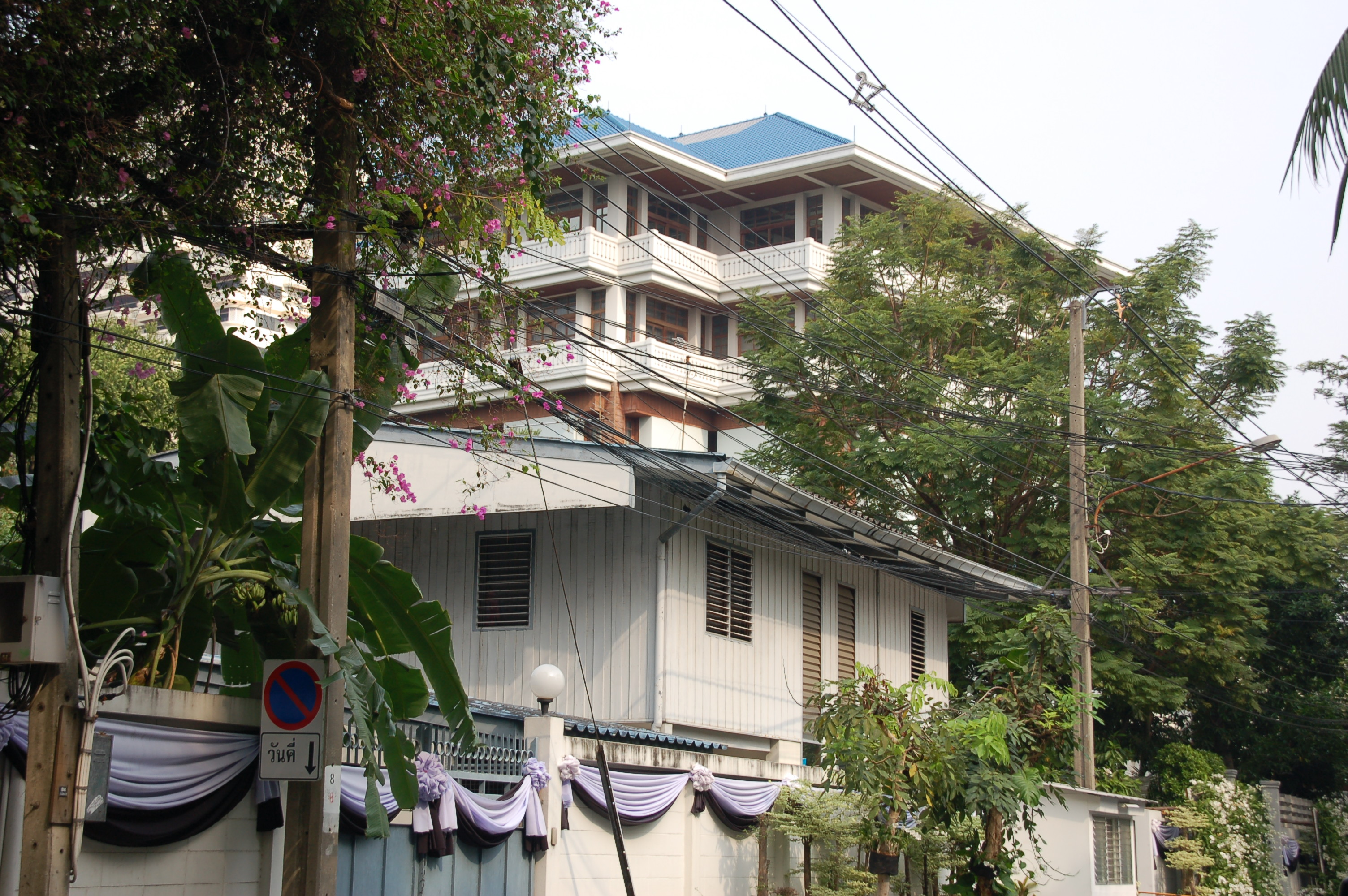 Front gate of Villa Vadhana, Le Dix palace. The building is at 15 Soi Ngam Du Phlee, Sikhumvit rd., Bangkok, Thailand. Constructed in 1997.